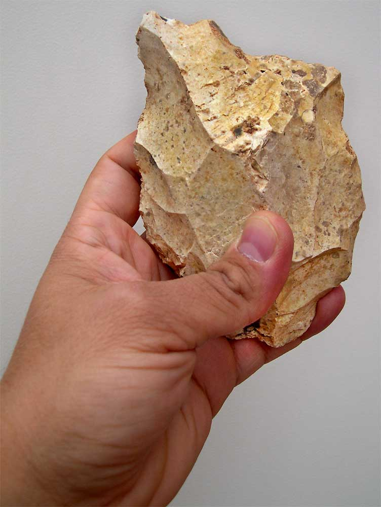 Cleaver-flake type 2 in the classification of J. Tixier (1956 & 1967)